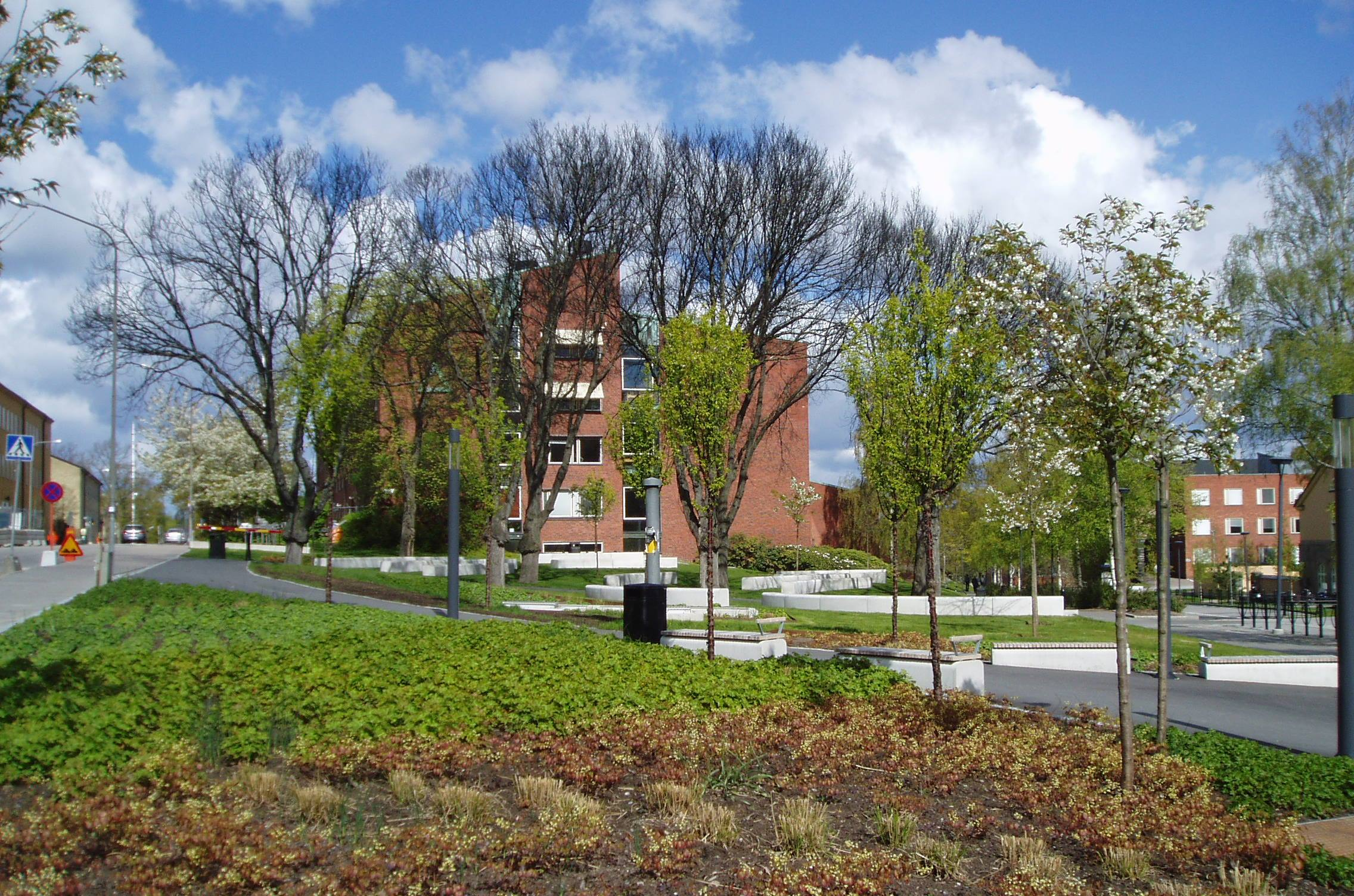 Triangelparken, park in nothern Stockholm, Sweden